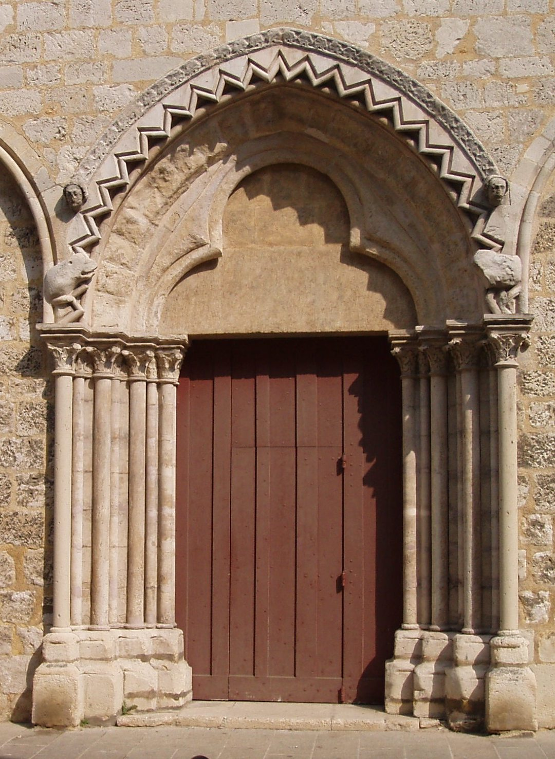 Brie-Comte-Robert, Seine-et-Marne, France: Hôtel-Dieu